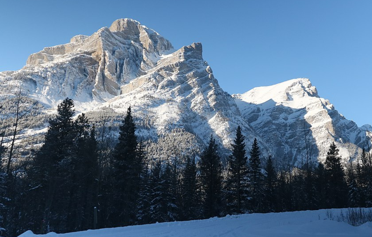 Nice to see this parking lot open in winter there are many very popular trails near here and the parking on the road was quite something throughout the winter